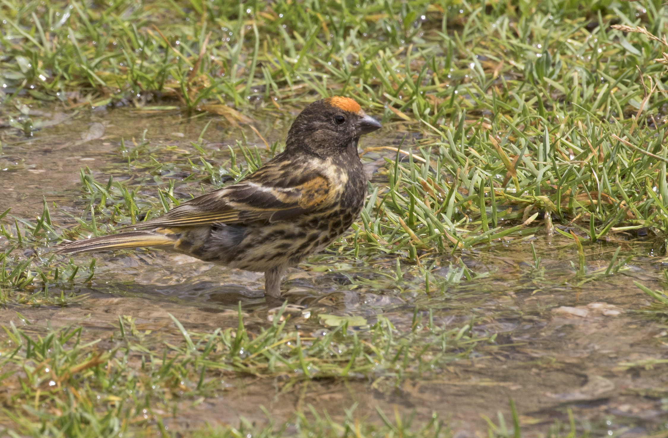 A male Red-fronted serin (Serinus pusillus) is about to have bath in a very hot day. Çamardı - Niğde, Turkey.